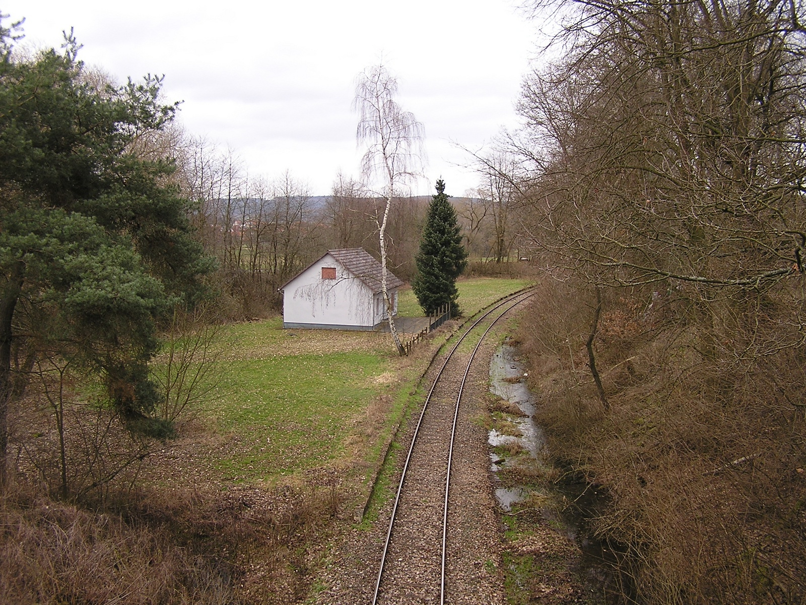 The Gründchenbahn railway at Oberjossa